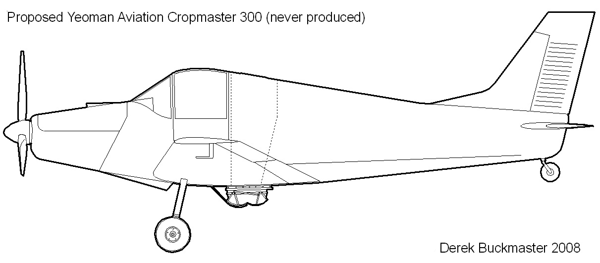 Side view sketch of the proposed Yeoman 300 aircraft which was planned by Yeoman Aviation. This aircraft was never put into production.